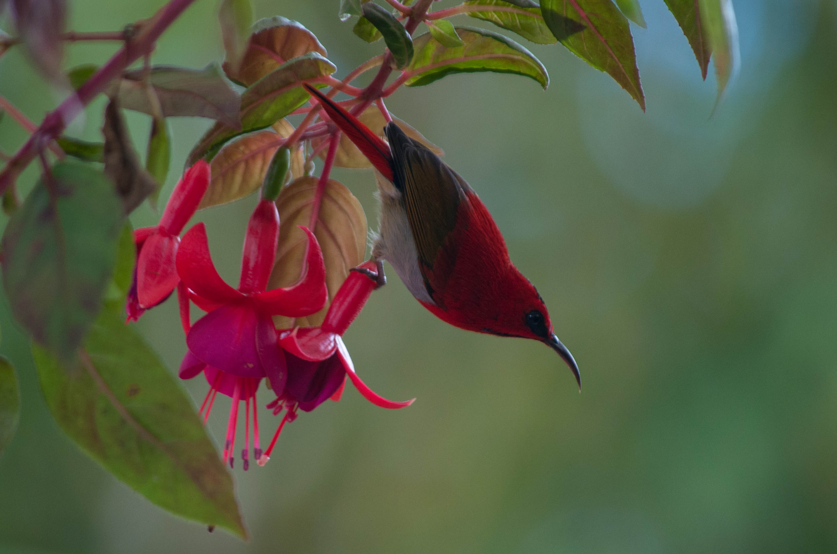 Temminck's Sunbird (Aethopyga temminckii), Borneo